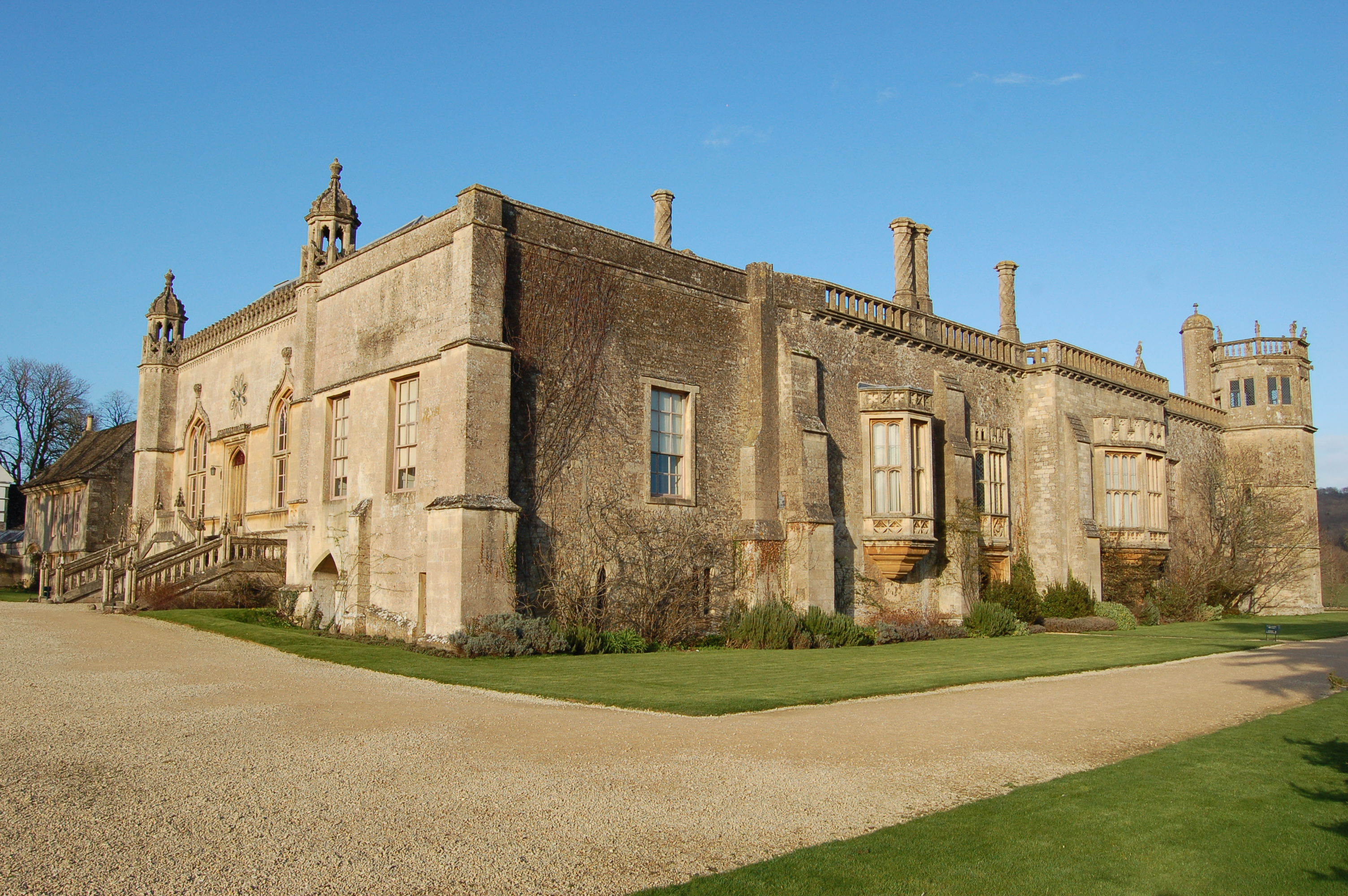 Lacock Abbey, Wiltshire, England, seen from the south west